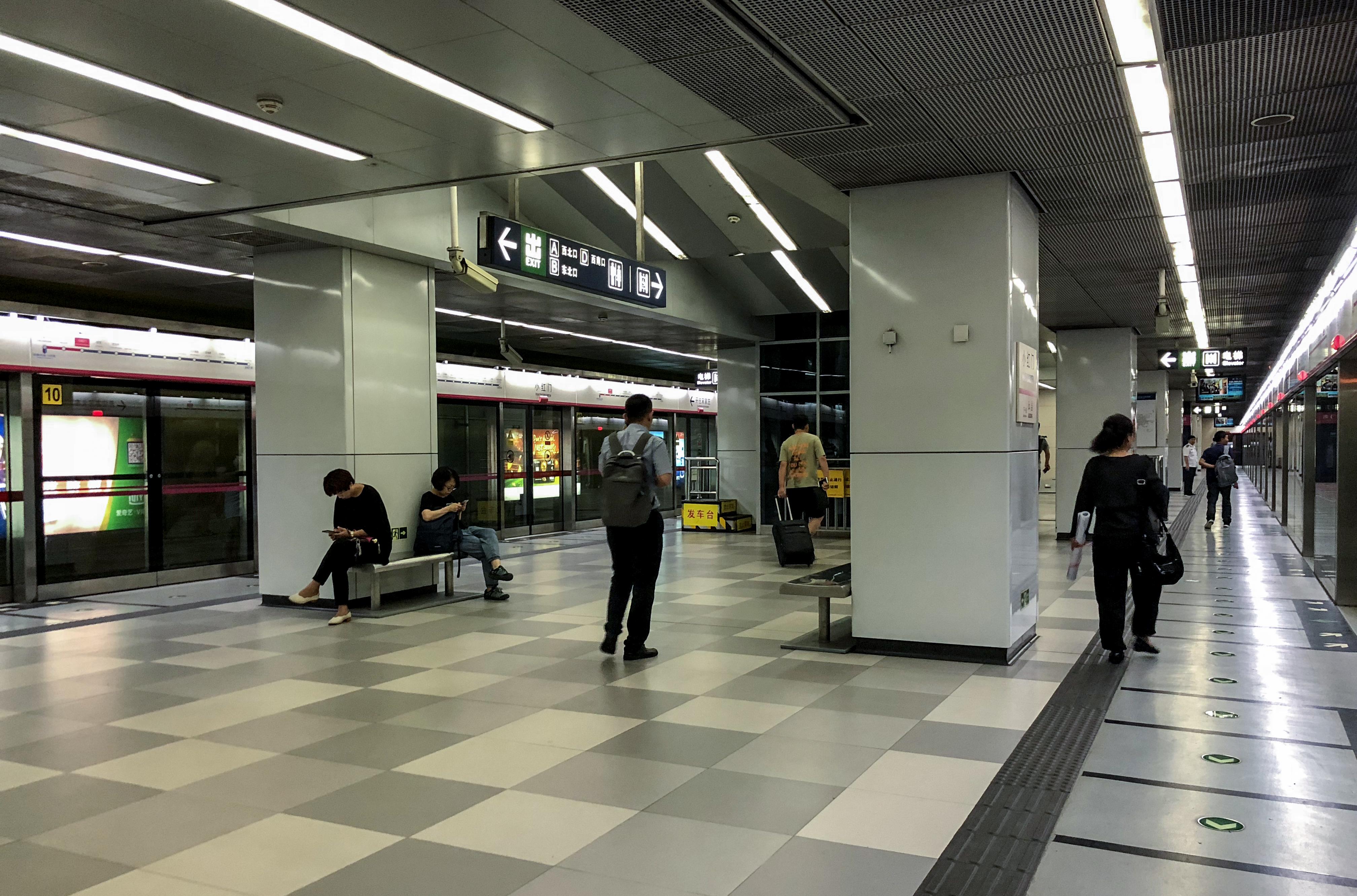 The last underground station of YZL in Chaoyang.